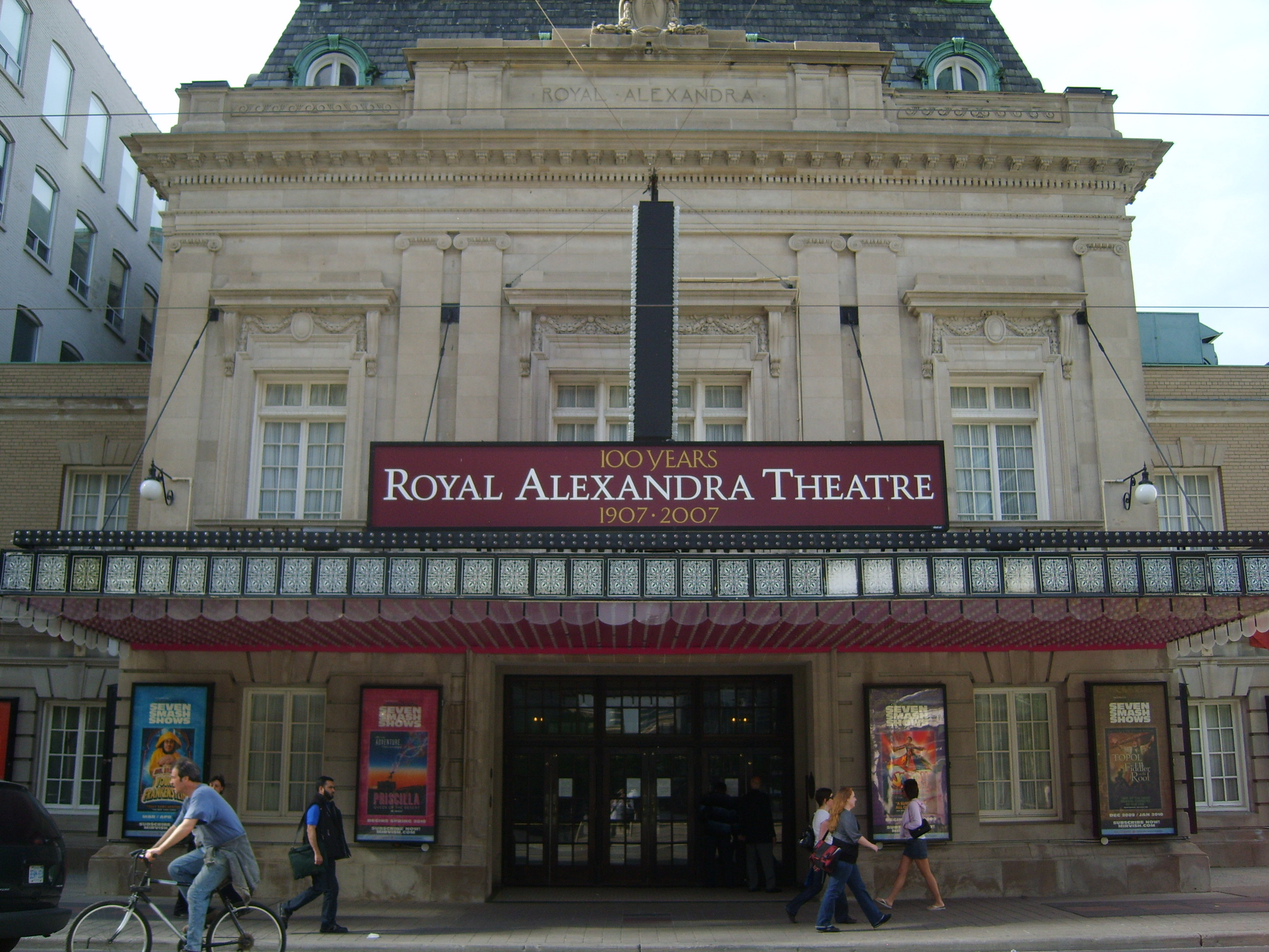 View from the south side of King St W.